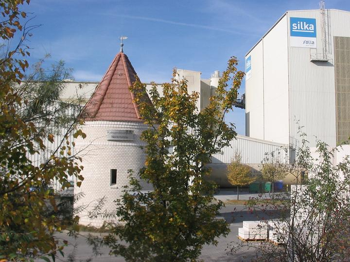 Kalksandsteinwerk Niederlehme (german for: sand-lime brick factory). The village Niederlehme is a part of the town Königs Wusterhausen in the district Dahme-Spreewald, state Brandenburg, Germany.